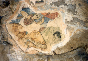 Fragment of fresco (Hylas and the nymphs, 2nd century AD) at Salamis, Cyprus, photo by User:Jeandunston